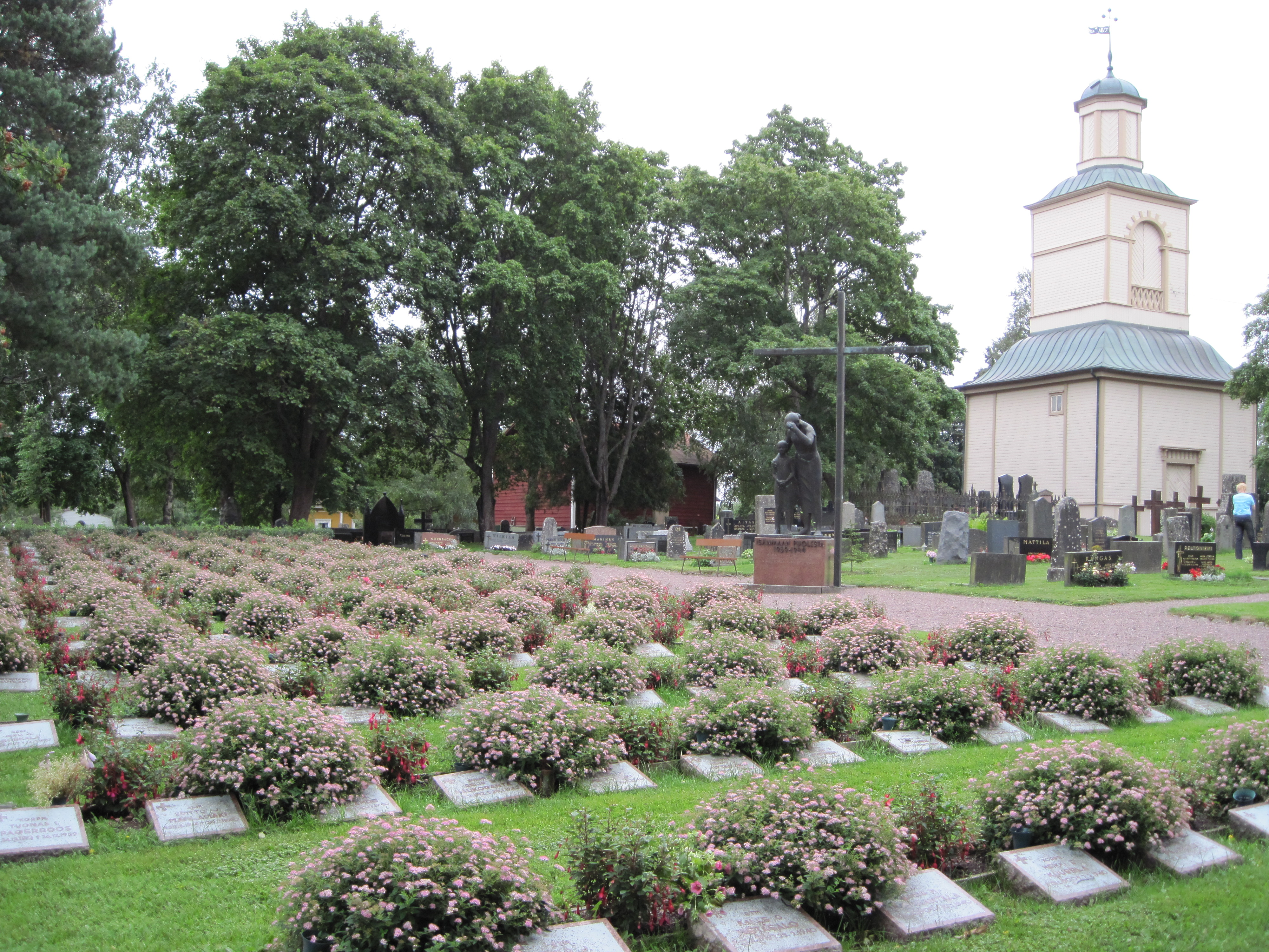 Military cemetary at Merikarvia church in Merikarvia , Finland